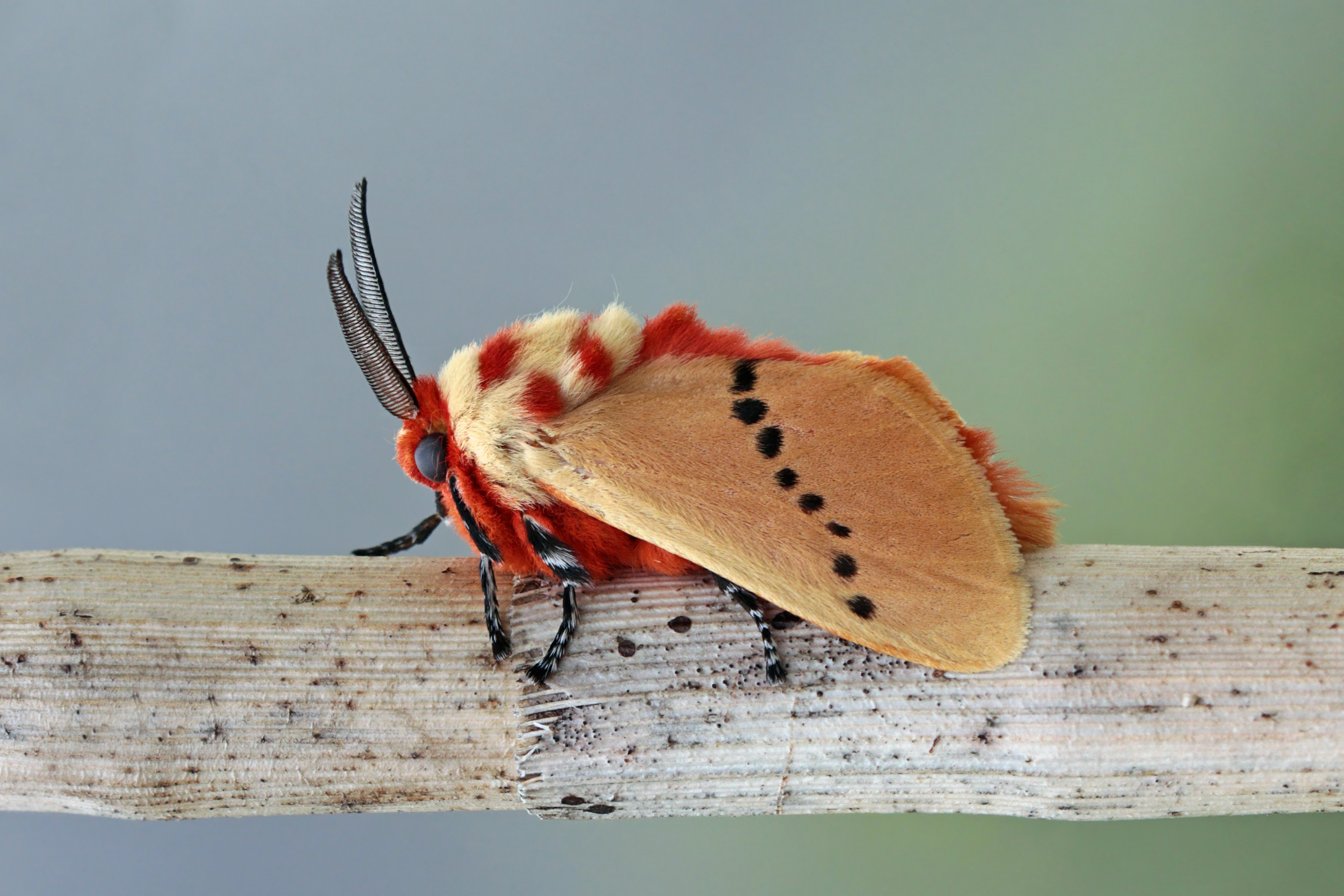 Rosy ermine moth (Trosia nigropunctigera), Mount Totumas cloud forest, Panama. Focus stack of three images.